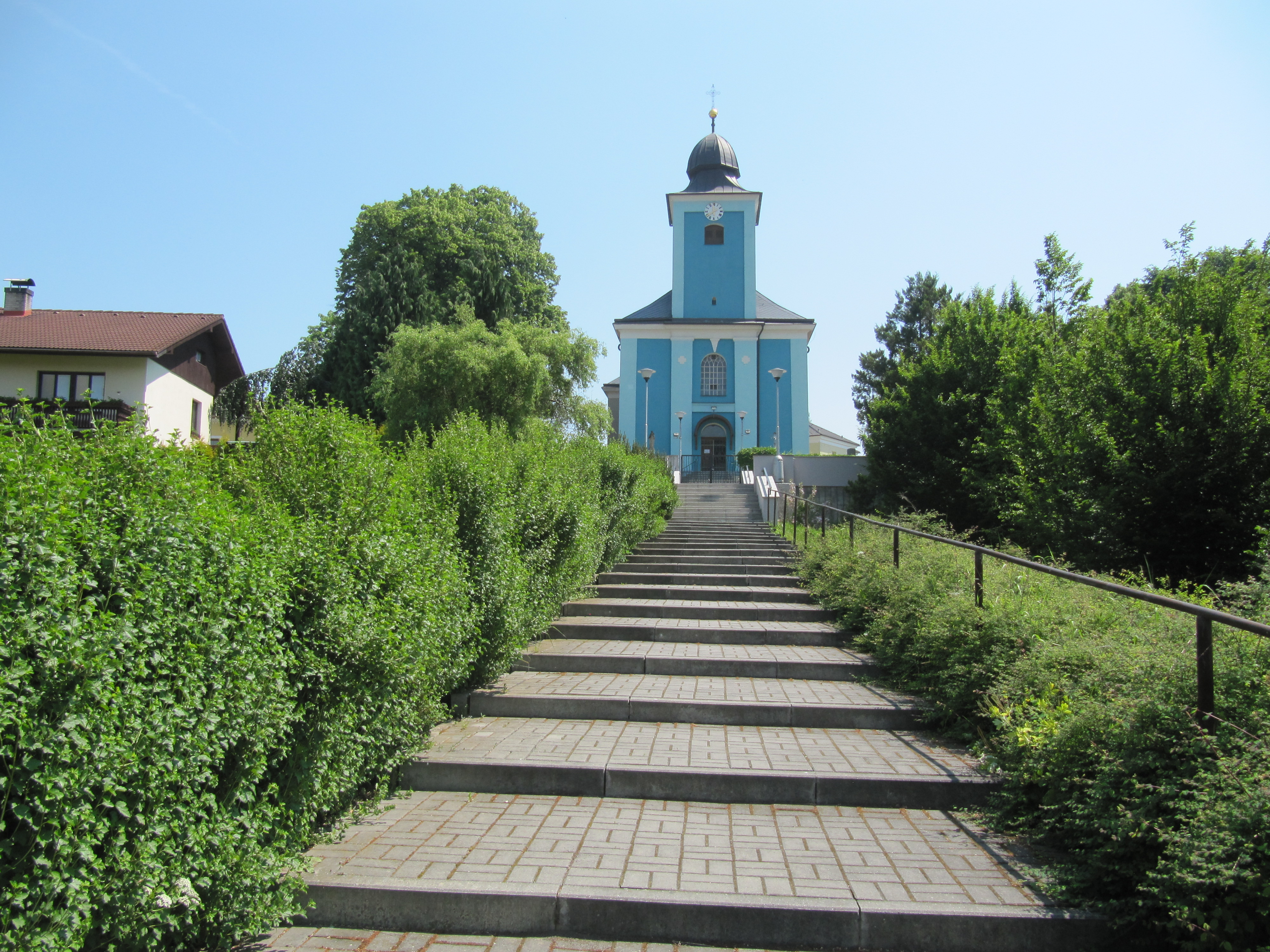 Větřkovice, Opava District, Czech Republic. Church of the Assumption of the Virgin Mary.